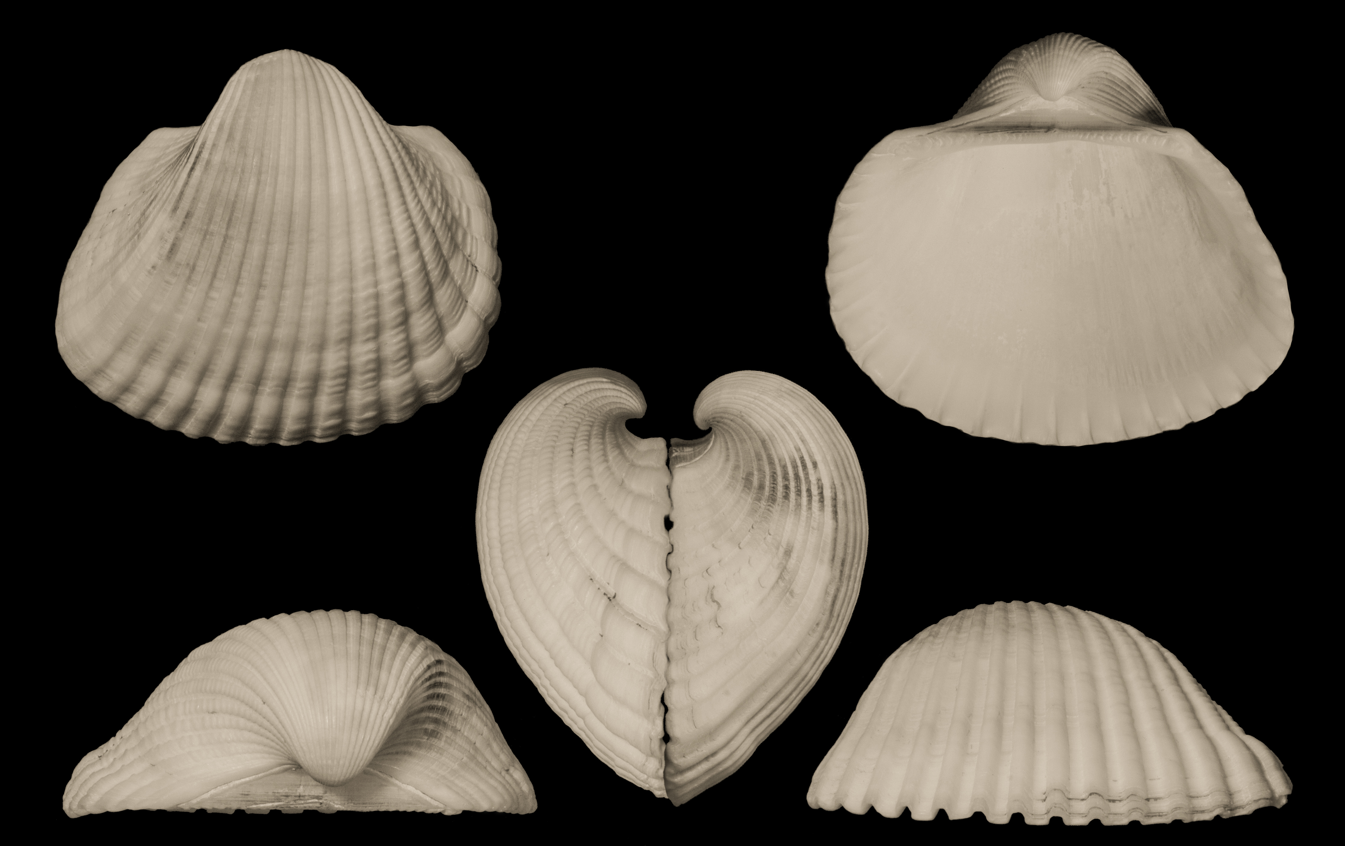 Anadara brasiliana (Lamarck, 1819) from La Restinga Bay, Margarita island